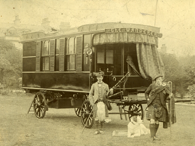 Photo of William Gordon Stables (right), with his dog Hurricane Bob and an unknown person (left) - with his caraven "The Wanderer", in the 1890s.